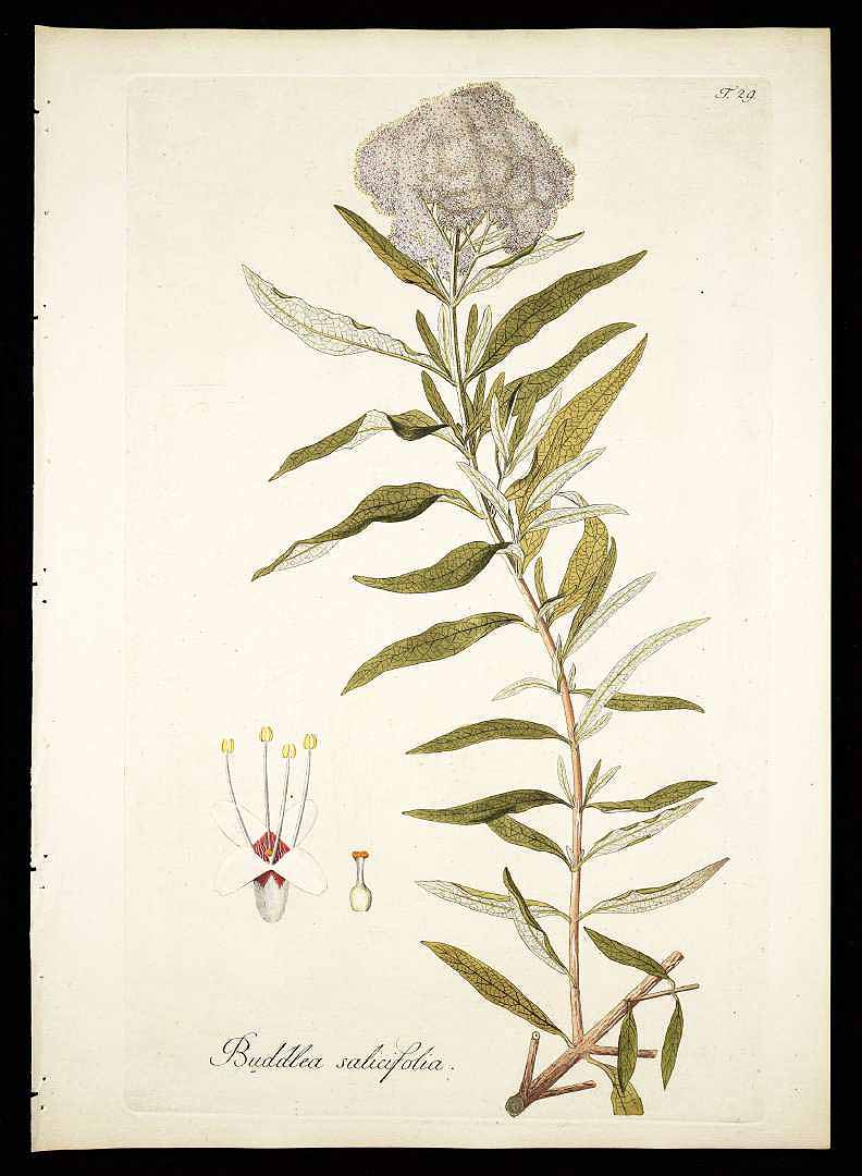 Plate 29 depicting Buddleja saligna from Plantarum rariorum horti caesarei Schoenbrunnensis descriptiones et icones, by Jacquin, N.J. von - vol. 1: t. 29 (1797)